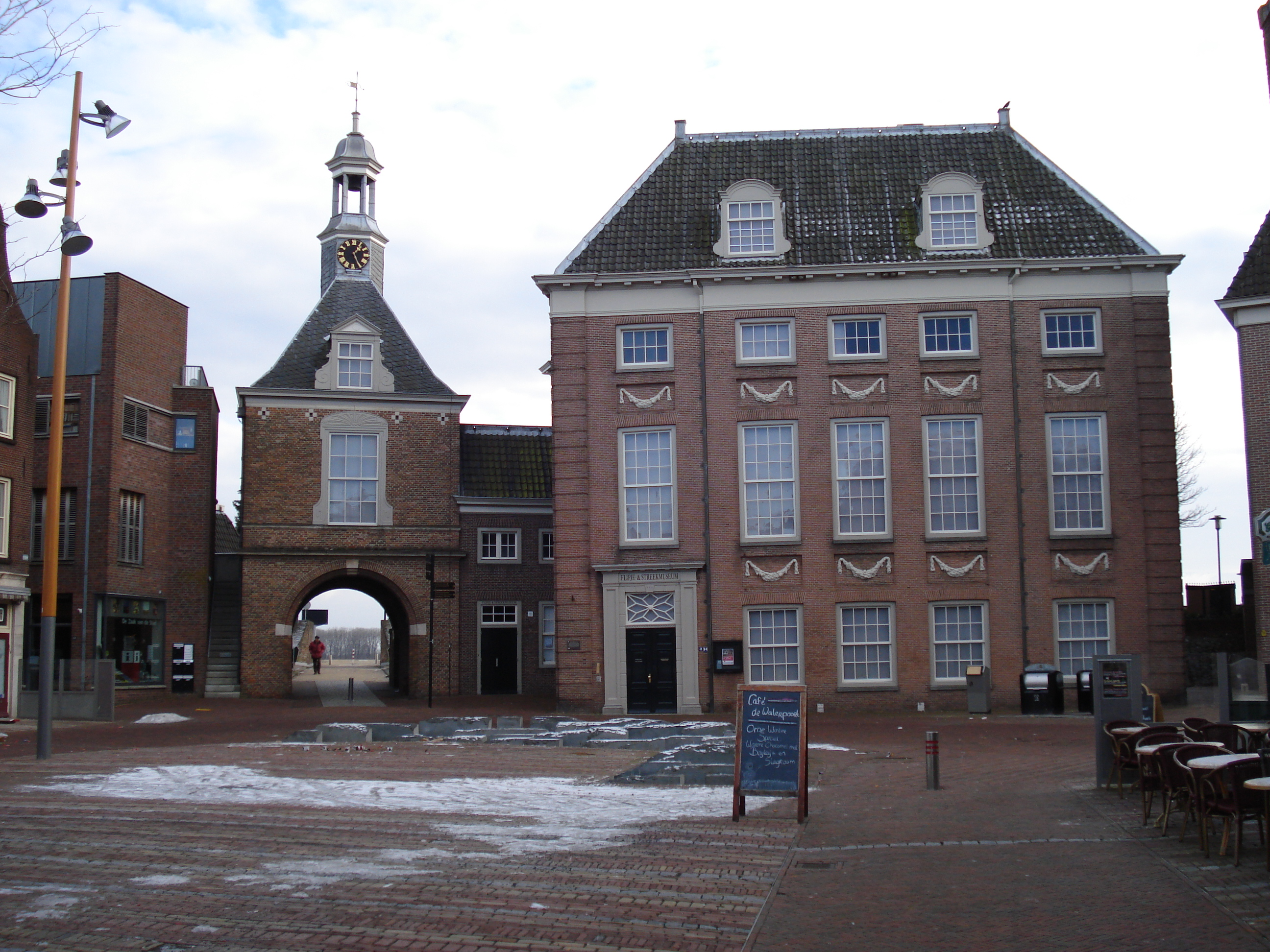 Tiel, Netherlands. Flipje- & Streekmuseum seen from Plein.